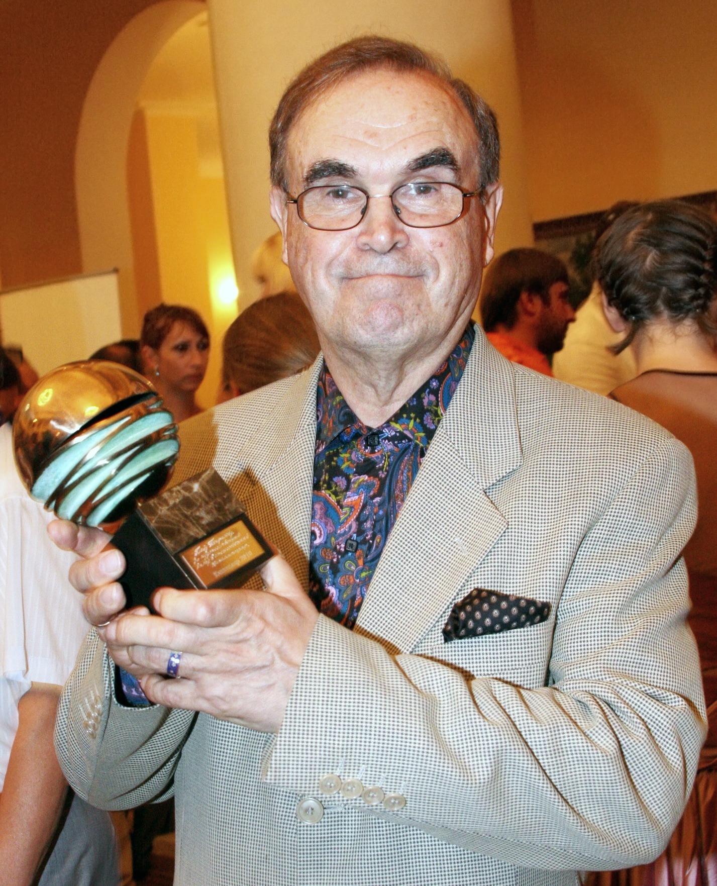 Gleb Panfilov, russian film director